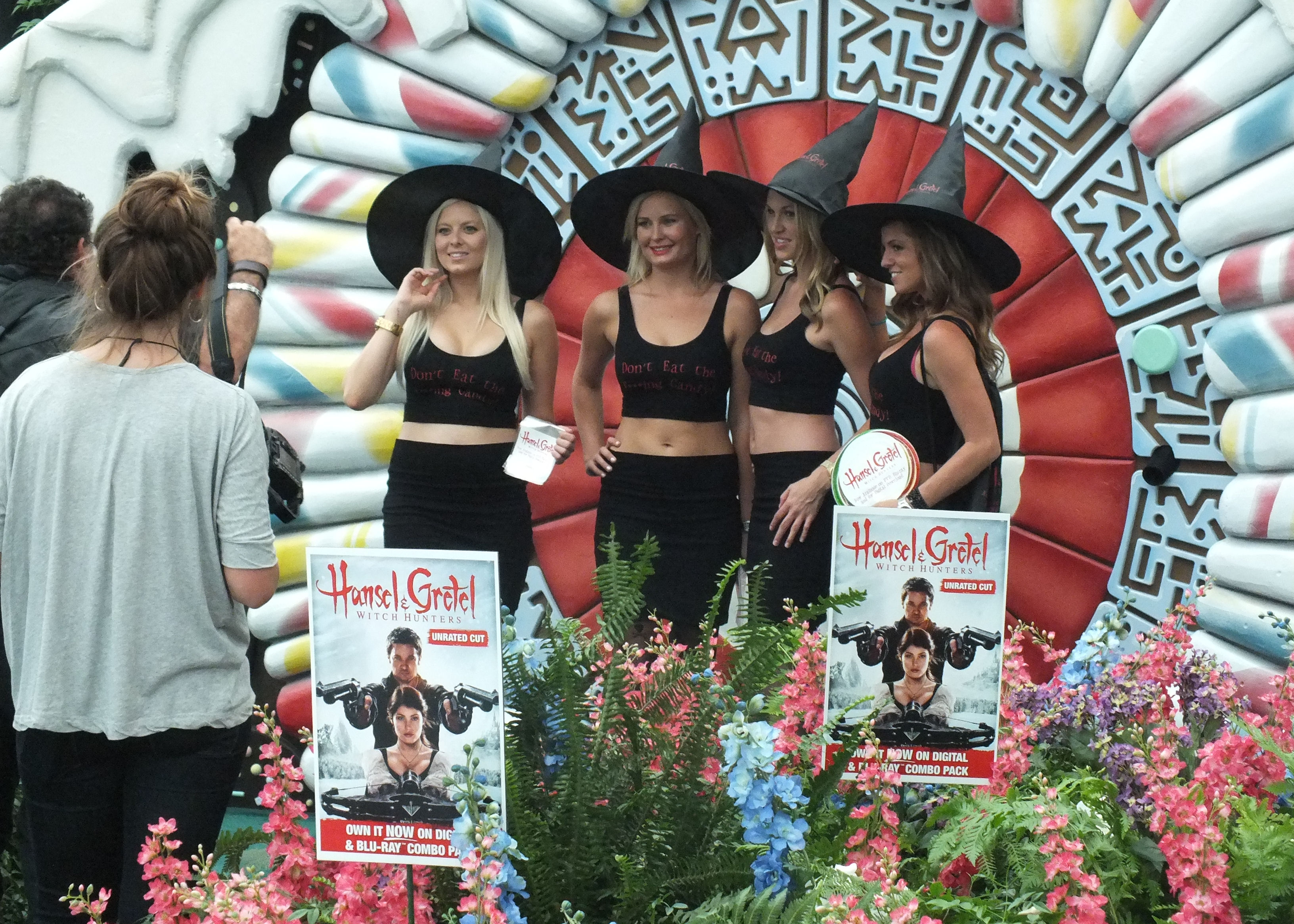 Taken on June 12, 2013. Dowtown Carrier Annex, Los Angeles